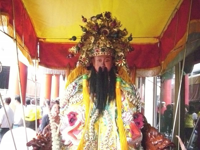 Shuntian Temple, Houlong, Miaoli.